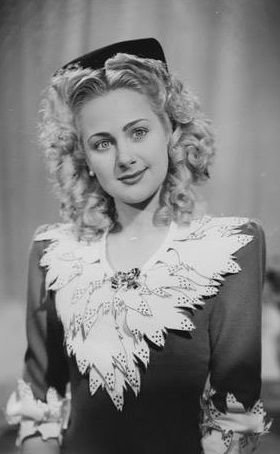 Ivonne de Lys-actriz y cantante